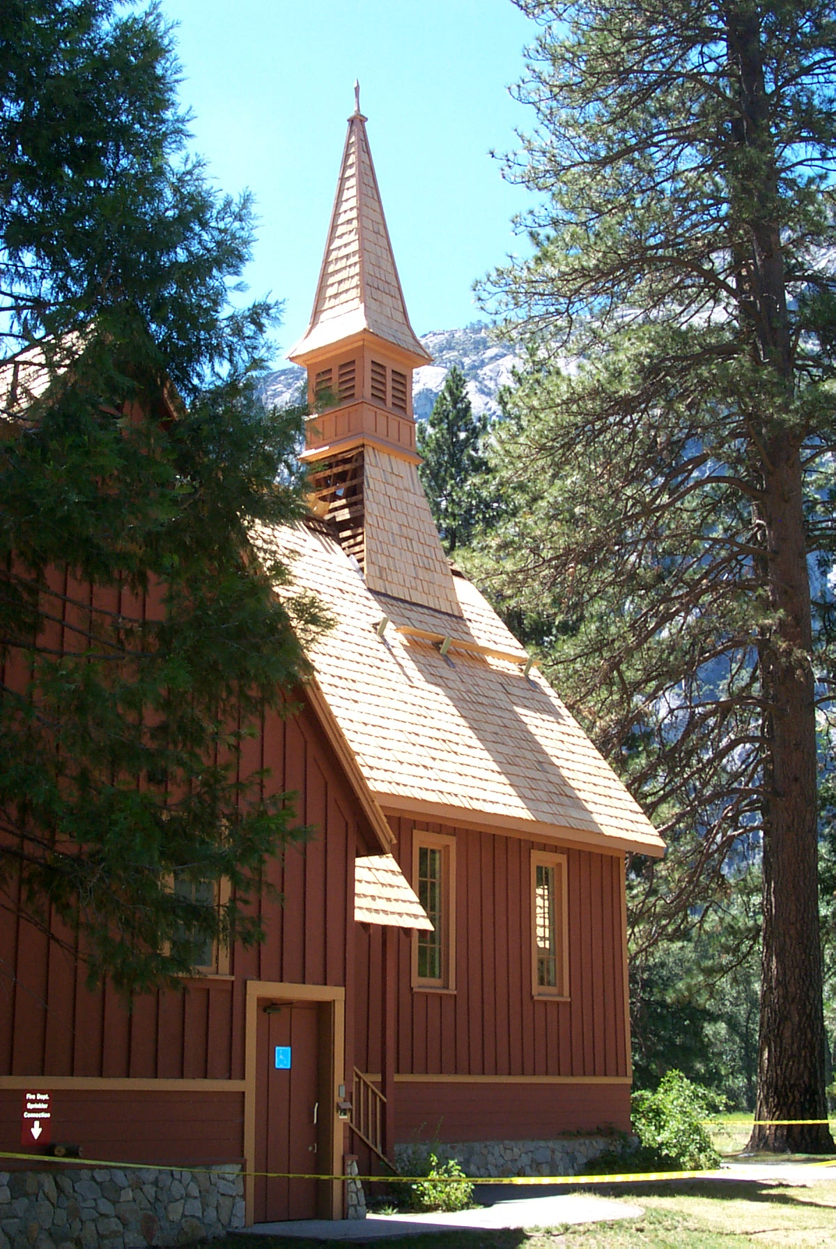 The Yosemite Valley Chapel in Yosemite Valley, California. The 1879 Carpenter Gothic style chapel is the oldest standing structure in Yosemite National Park